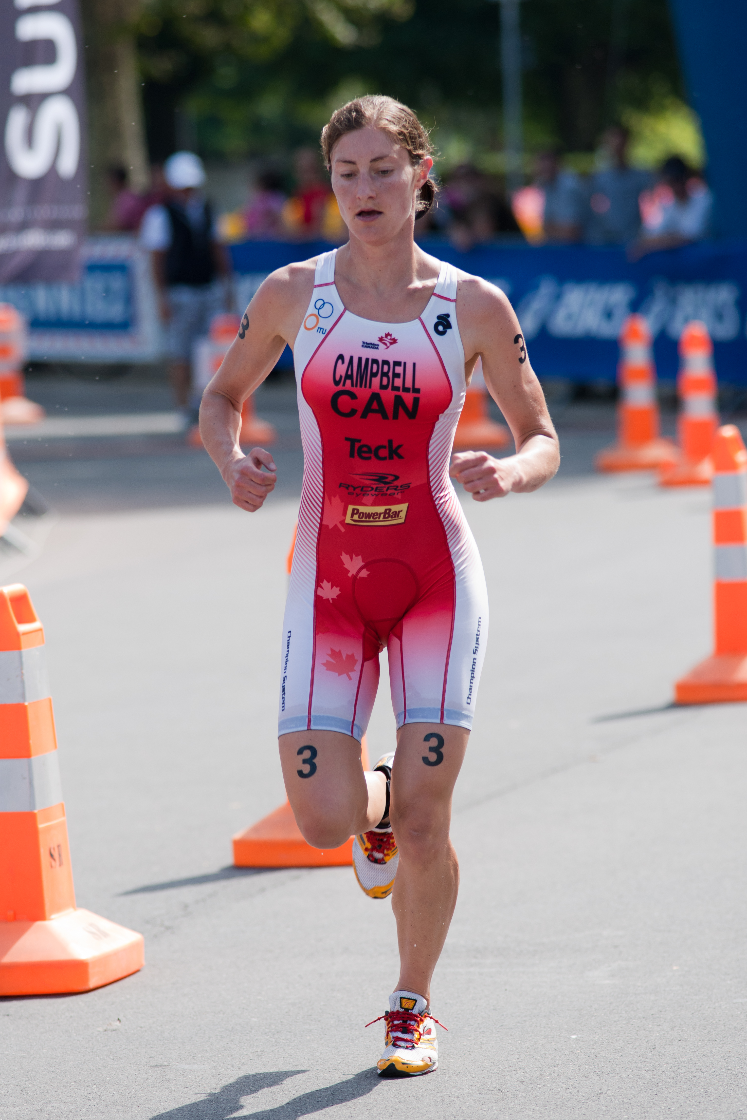 2010 ITU Sprint Distance Triathlon World Championships, Lausanne, Switzerland.